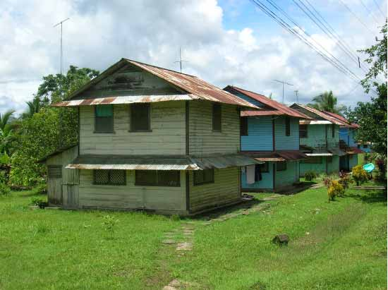 Image of UFCO remnants in Southern Costa